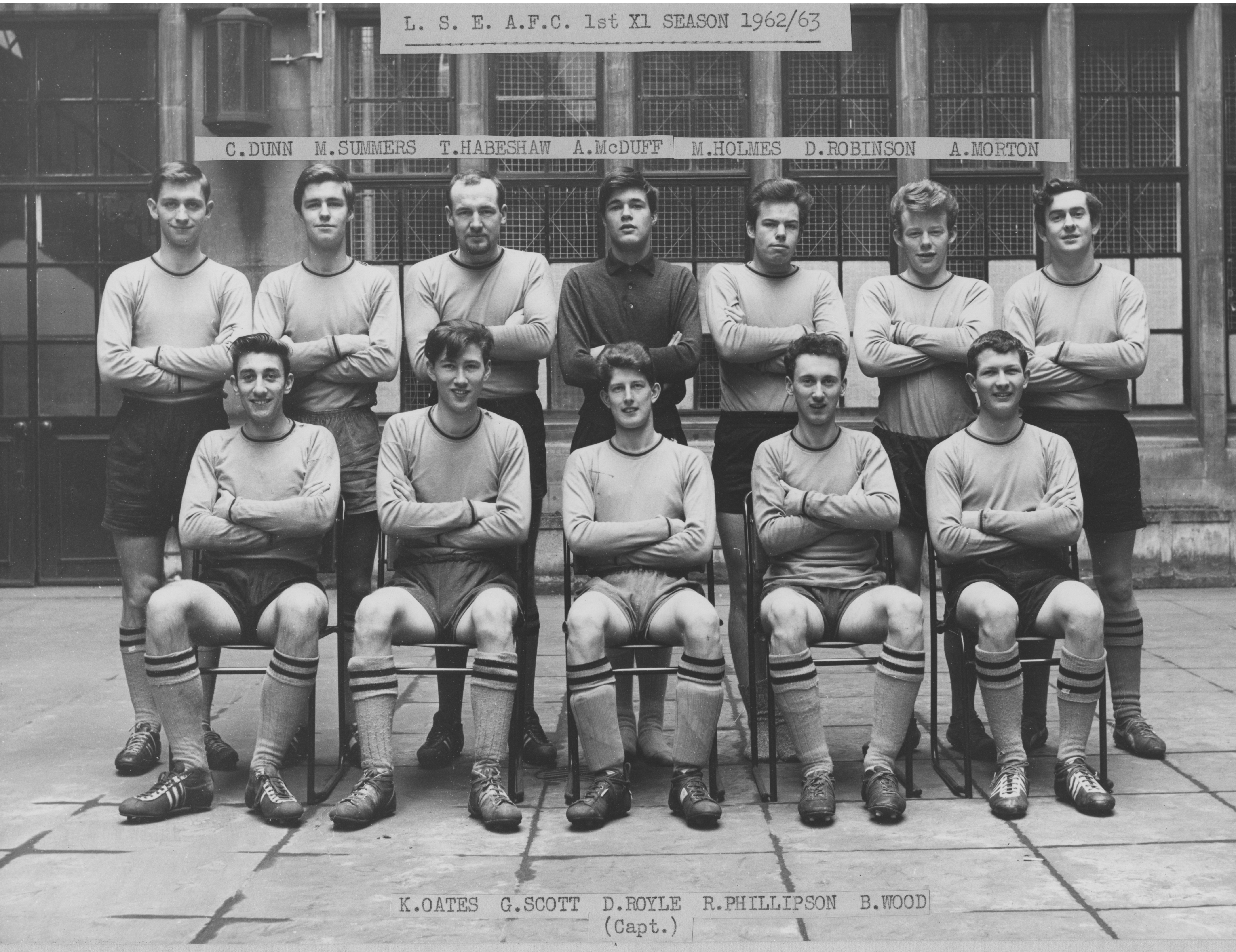 1962/63 Season. Back row left to right: Colin Dunn, Michael Summers, Trevor Habeshaw, Alistair Mc Duff, Michael Holmes, D. Robinson, Alan Morton Front Row left to right: K. Oates, Gordon Scott, David Royle (Captain), Robin Phillipson, Bruce Wood IMAGELIBRARY/190 Persistent URL